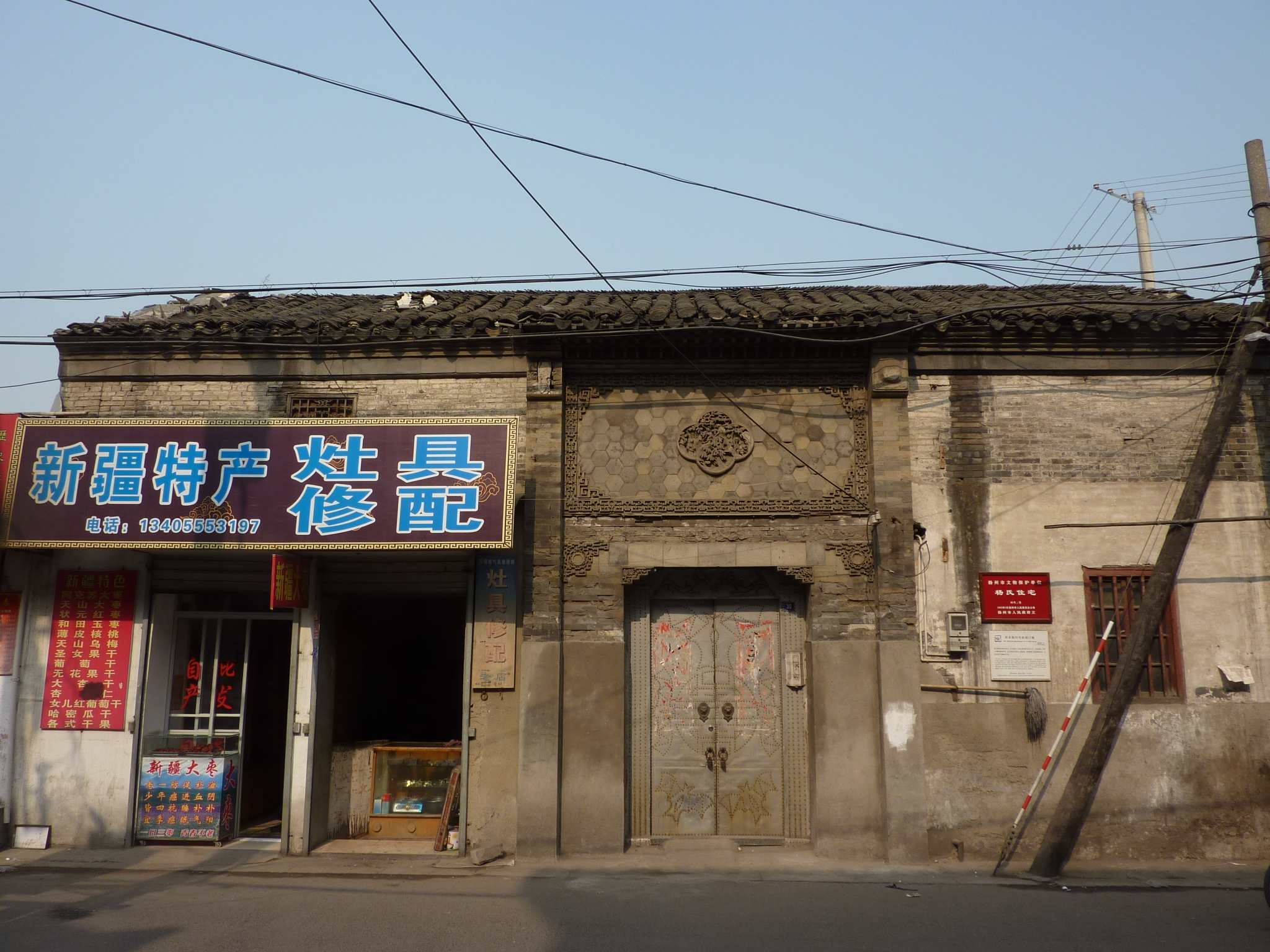 The former Yang Zimu residence at 30 Caoyi St, Guangling District, Yangzhou. This late-Qing building is noted for the brick carving above its entrance. Now there is a shop selling dry fruit from Xinjiang to the left of the building's main entrance.